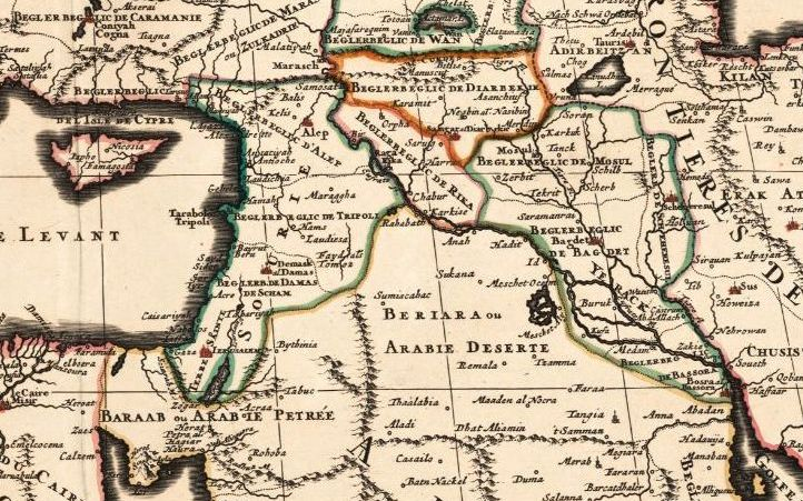 Map of Ottoman Empire and its divisions in 1696.